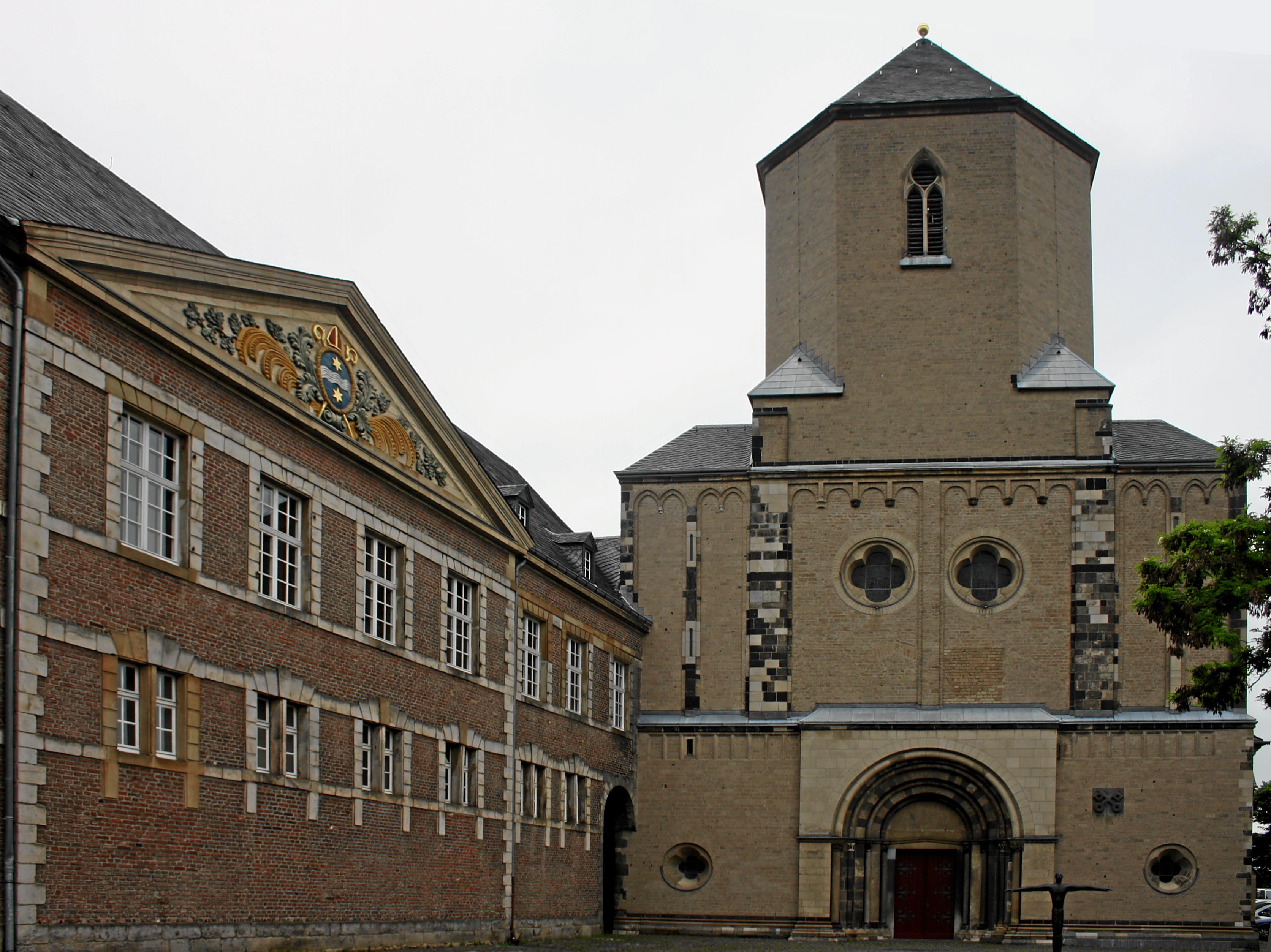 Mönchengladbach, Germany. Roman-catholic church St. Vitus, exterior view from East, and south-wing of the former abbey buildings (today: town hall).